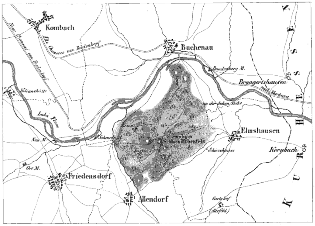 Location of Schloss Hohenfels (Hessen).